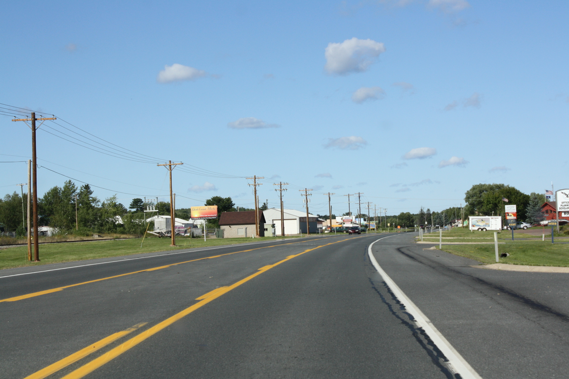 Looking northerly at Baraga, Michigan along U.S. Route 41.